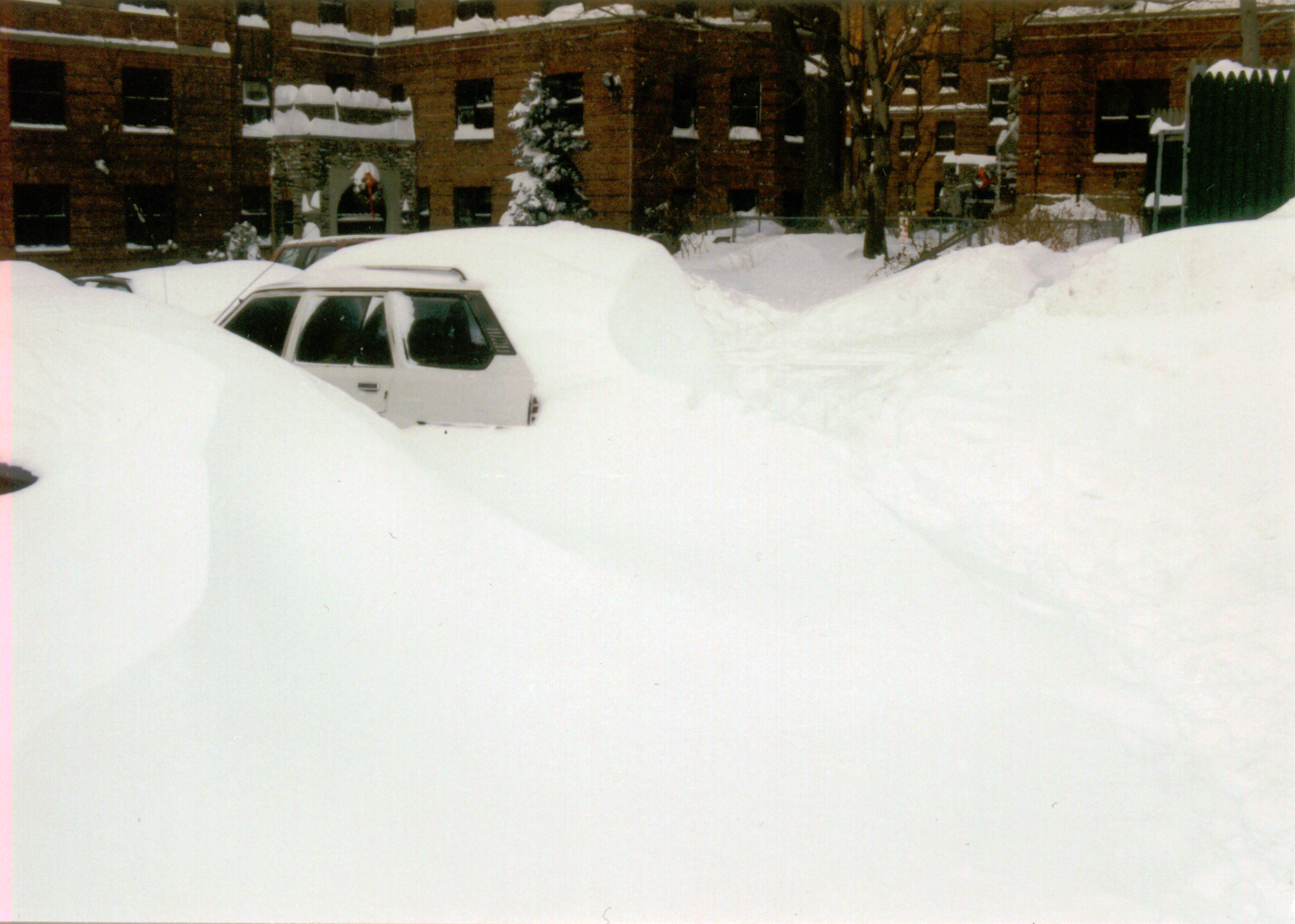 Snow in Yonkers, New York in January 1996